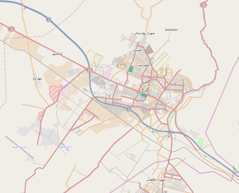 This map may be incomplete, and may contain errors. Don't rely solely on it for navigation.